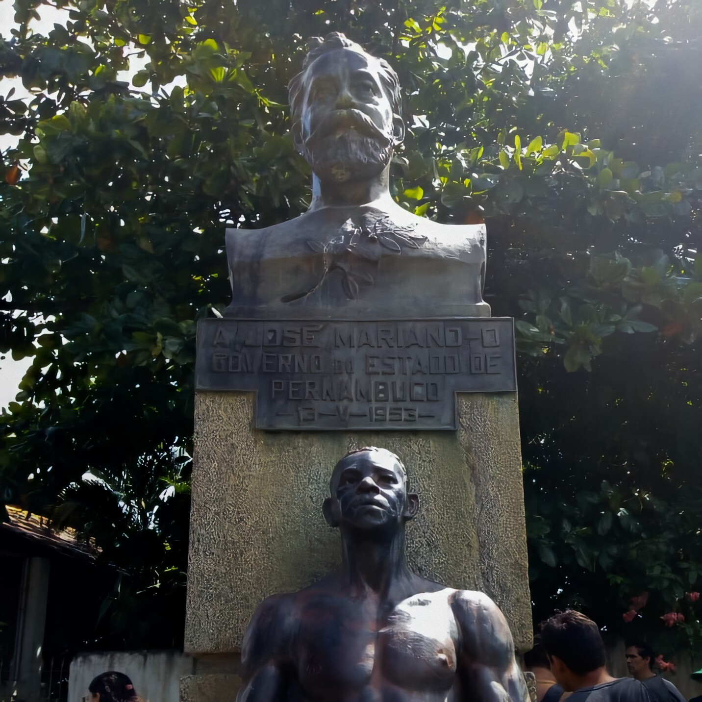 On the banks of the Capibaribe River the bust was placed, representing his Pernambuco nationality and his struggle against slavery.